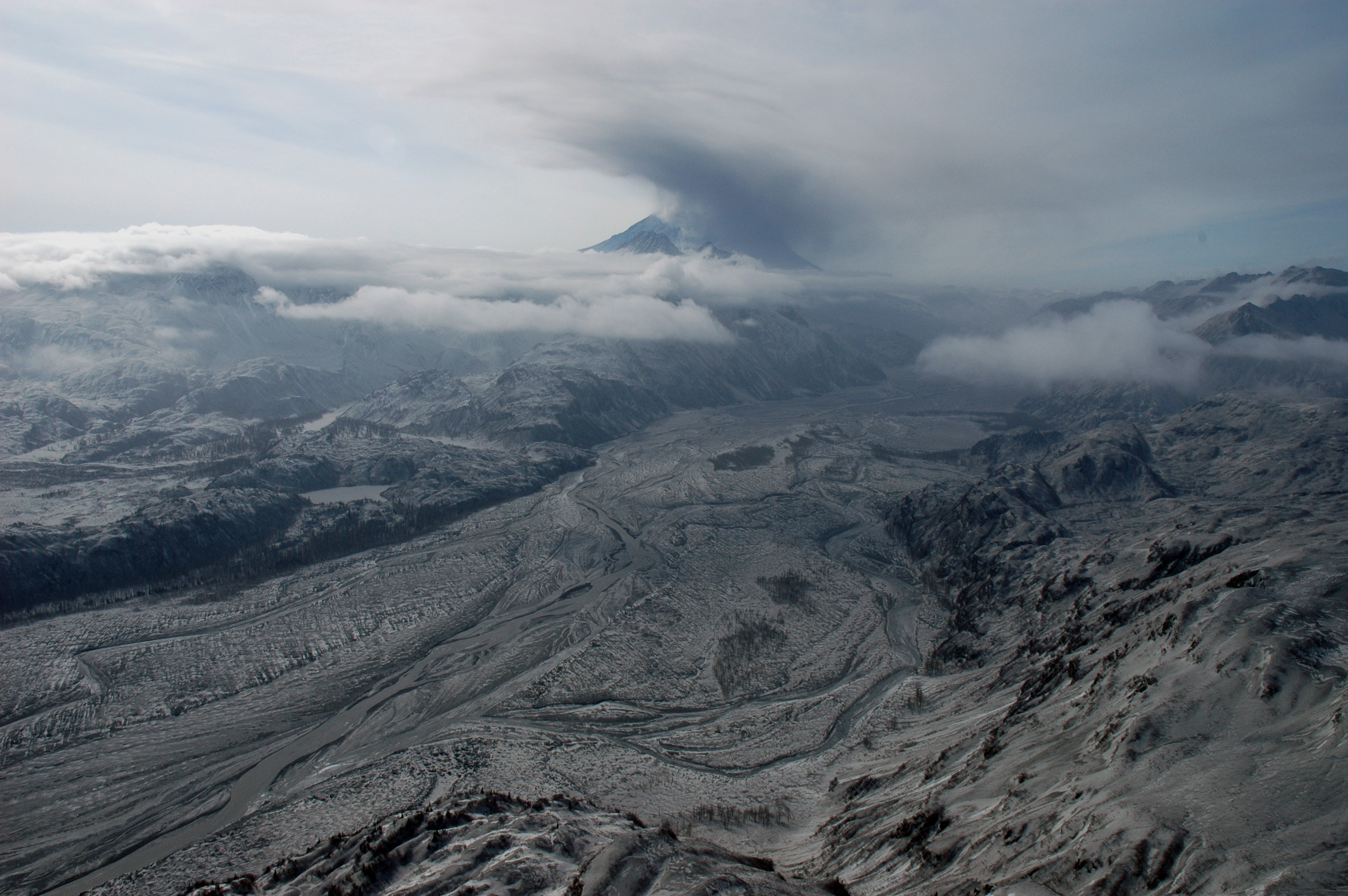 Mt Redoubt, Alaska, USA. The volcano is active and a smoke cloud hangs over the summit. The valley below the mountain is covered in ash.